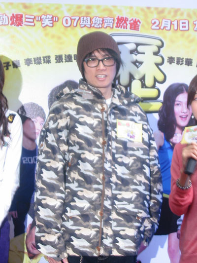 Dayo Wong Chi-wah